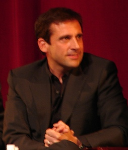 Steve Carell